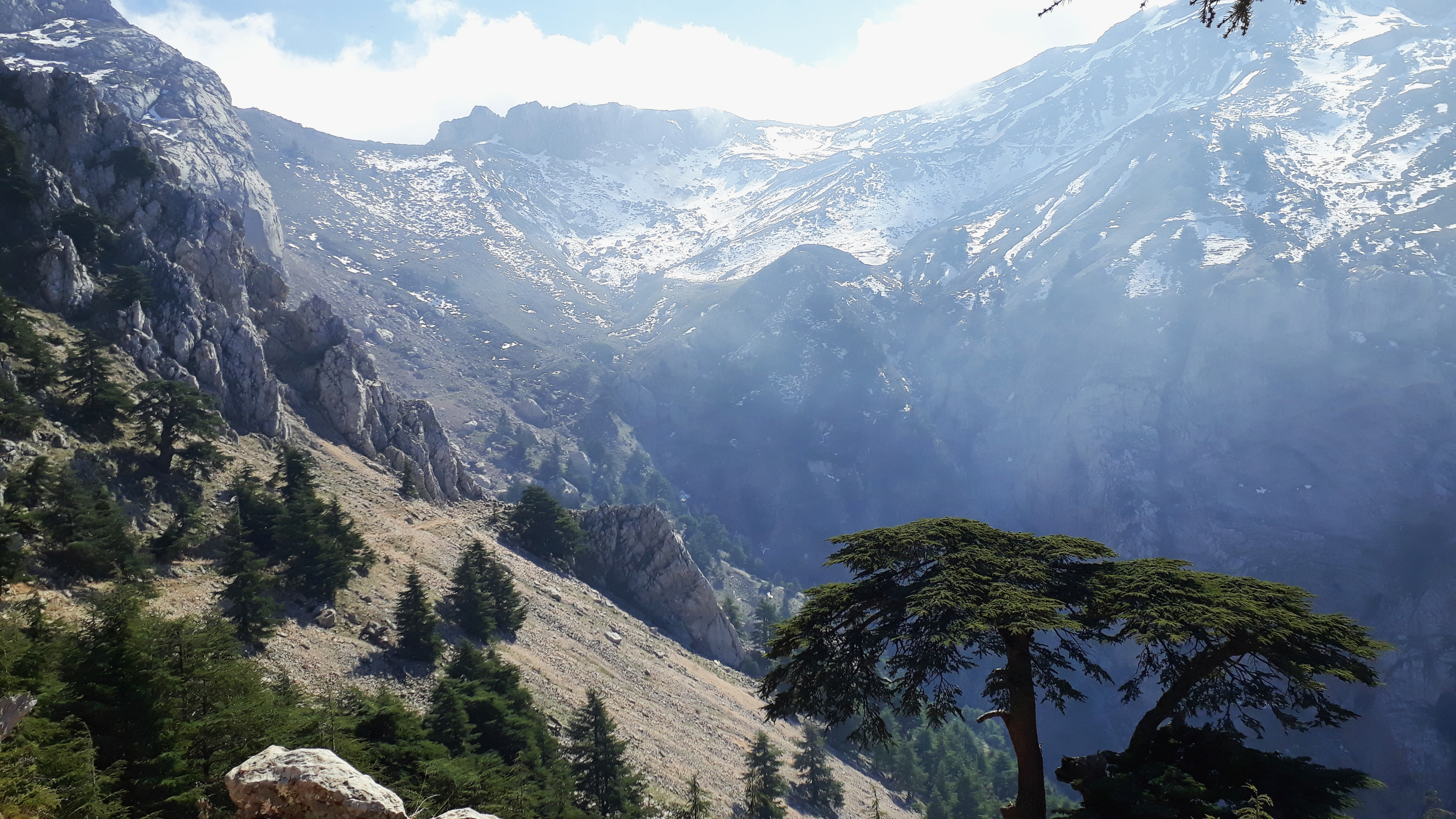 A magnificent place thizi tevawelt which is located in the wilaya of Tizi-Ouzou This is an image with the theme "Africa on the Move or Transport" from: Algeria